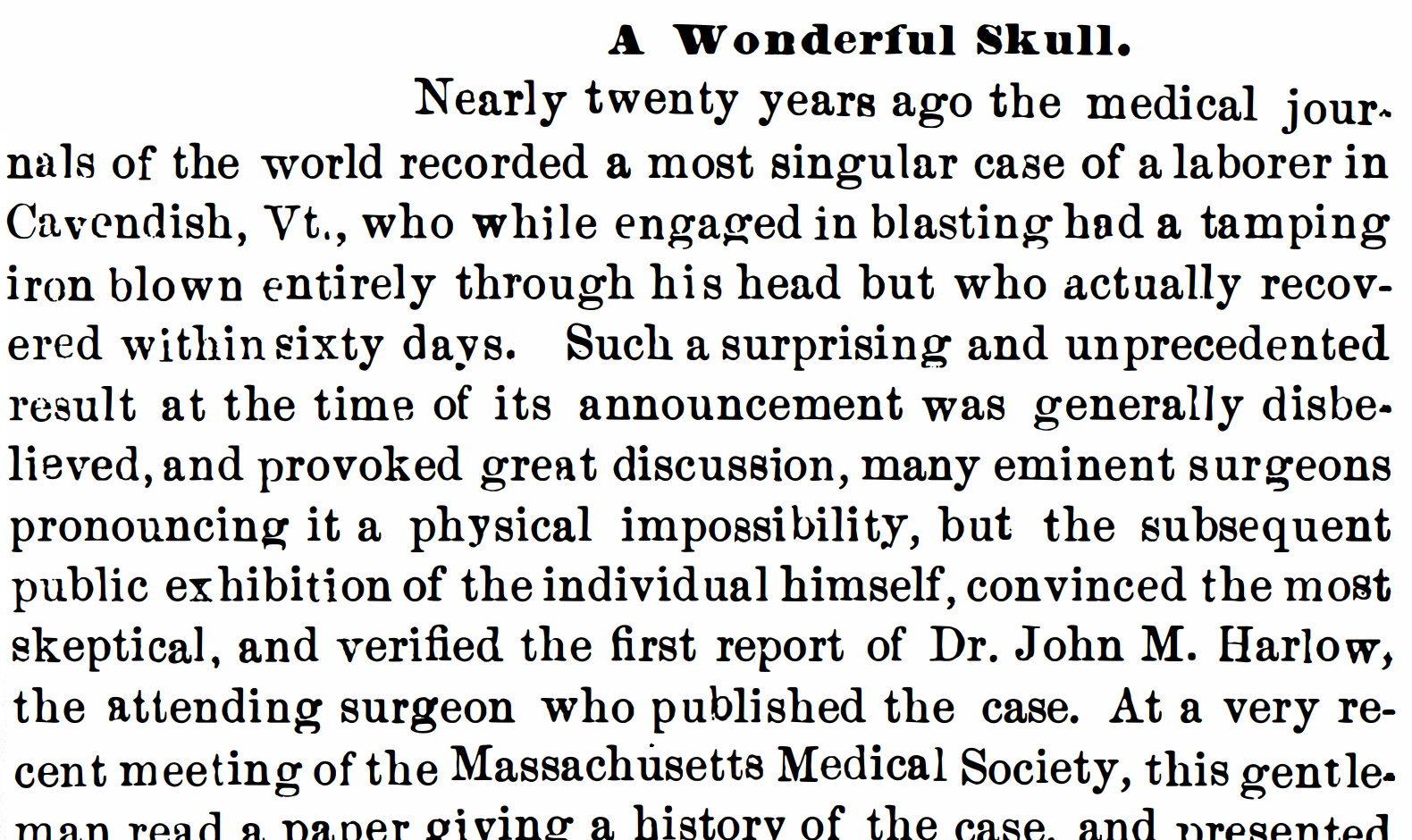 Item, "A Wonderful Skull", summarizing John Martyn Harlow's paper on Phineas Gage, read to the Massachusetts Medical Society (June 3, 1868)